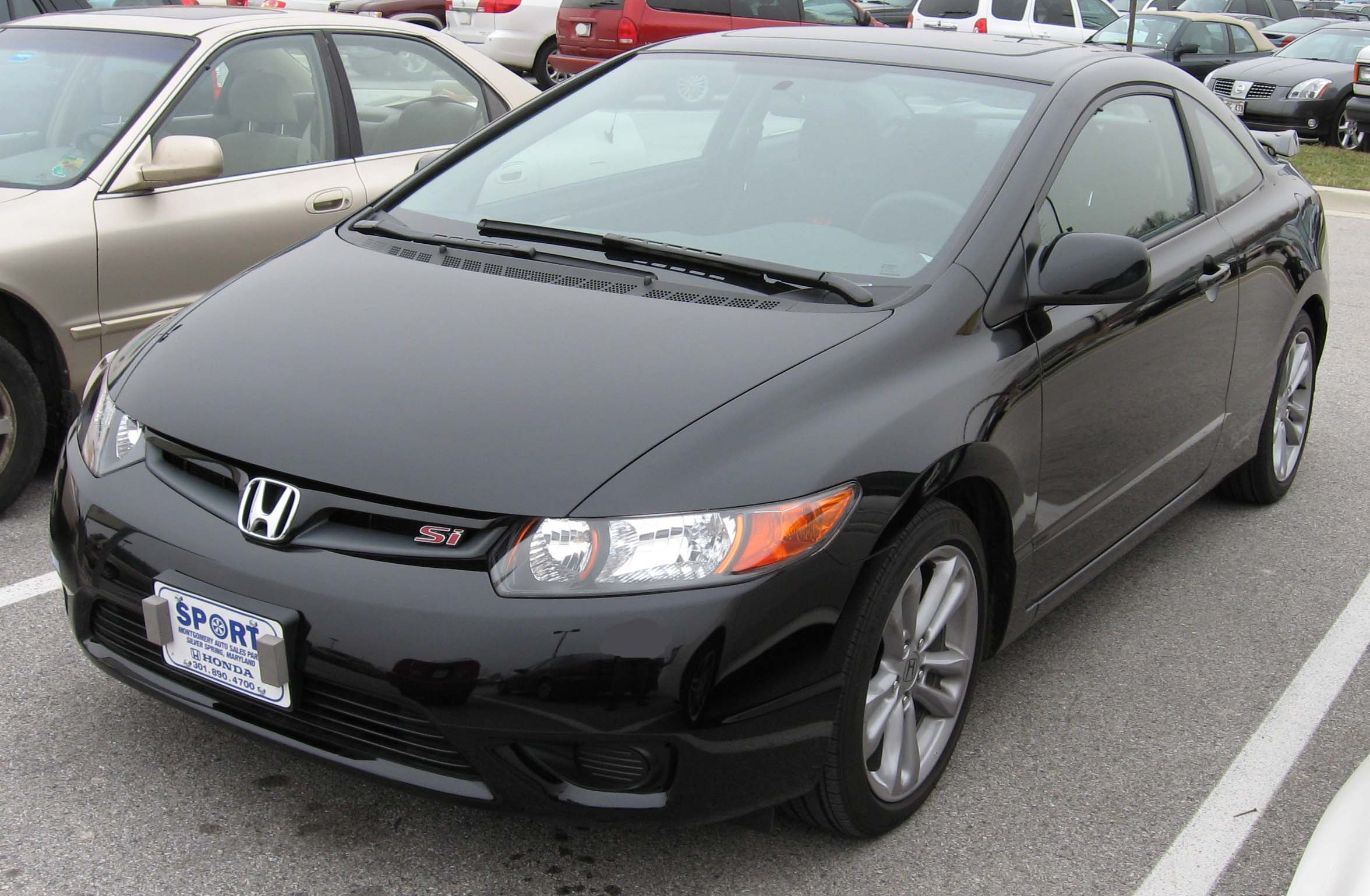 2006-2007 Honda Civic Si photographed in USA.